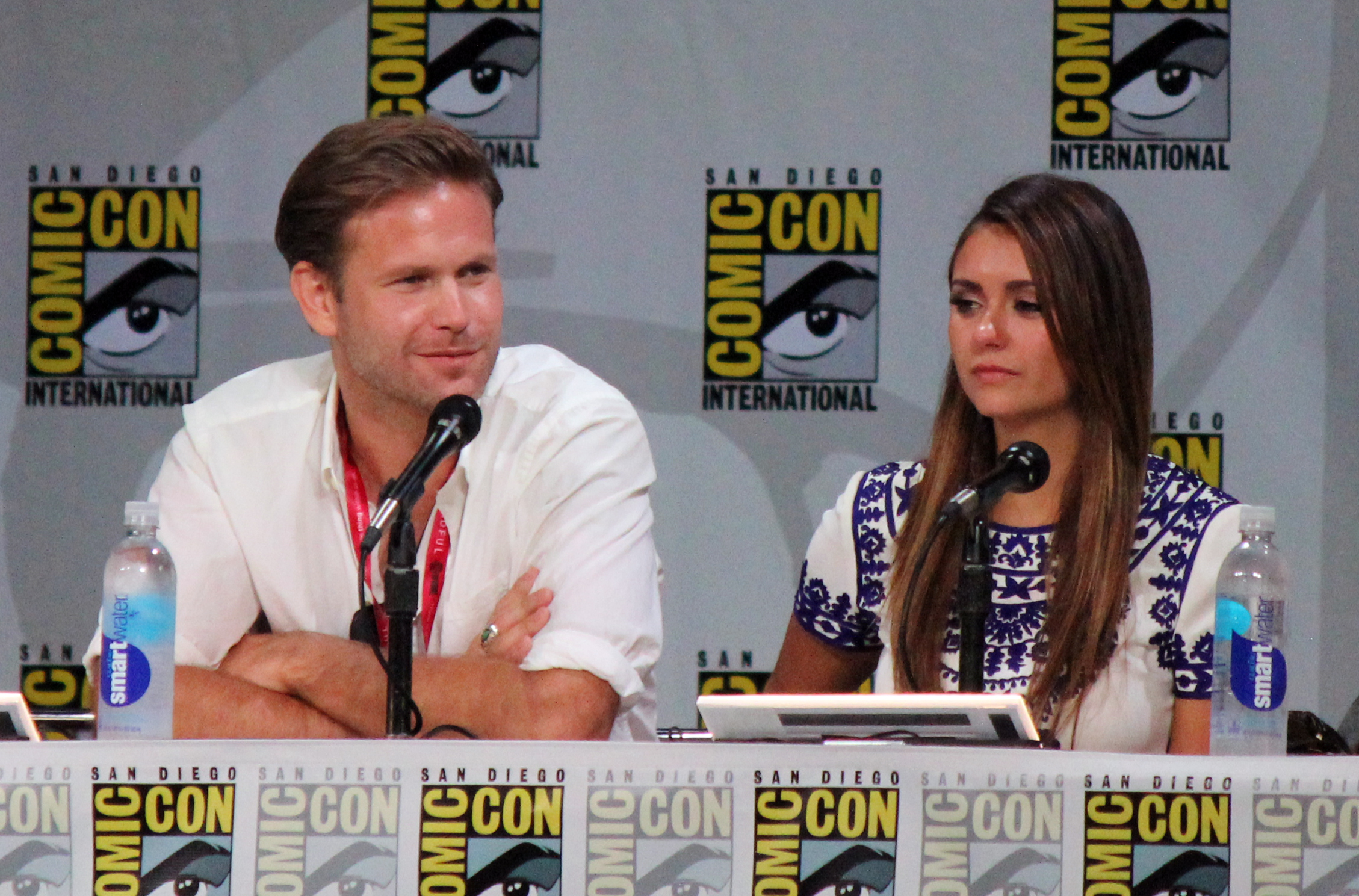 Matthew Davis and Nina Dobrev at The Vampire Diaries panel at the 2014 Comic-Con convention in San Diego, California.